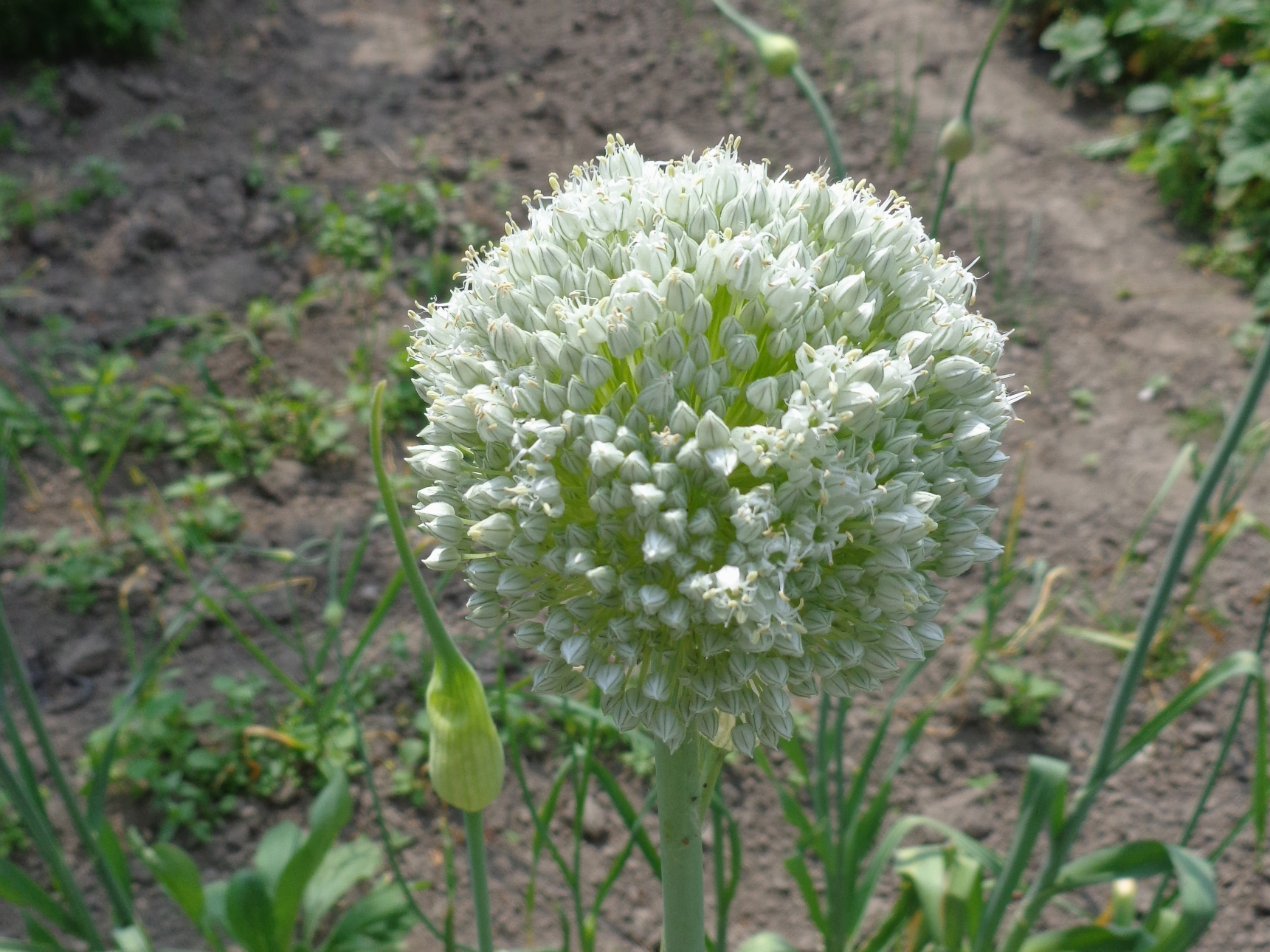 Allium sativum. Found in Bērzi village near Bauska, Latvia